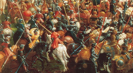 Battle of Alexander the Great against Persian King Darius